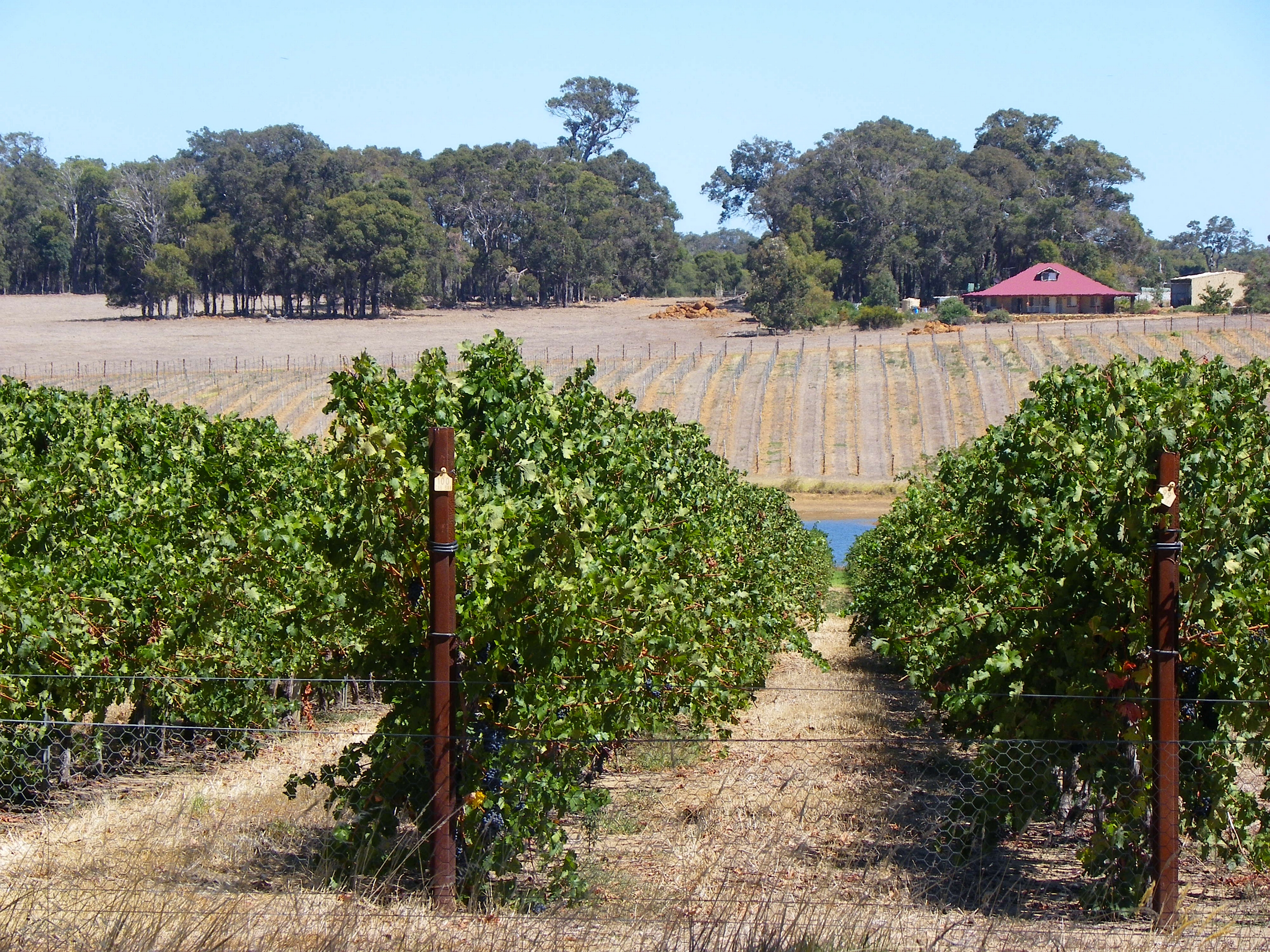 Vineyard in the Margaret River area, WA